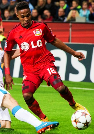 Wendell Nascimento Borges